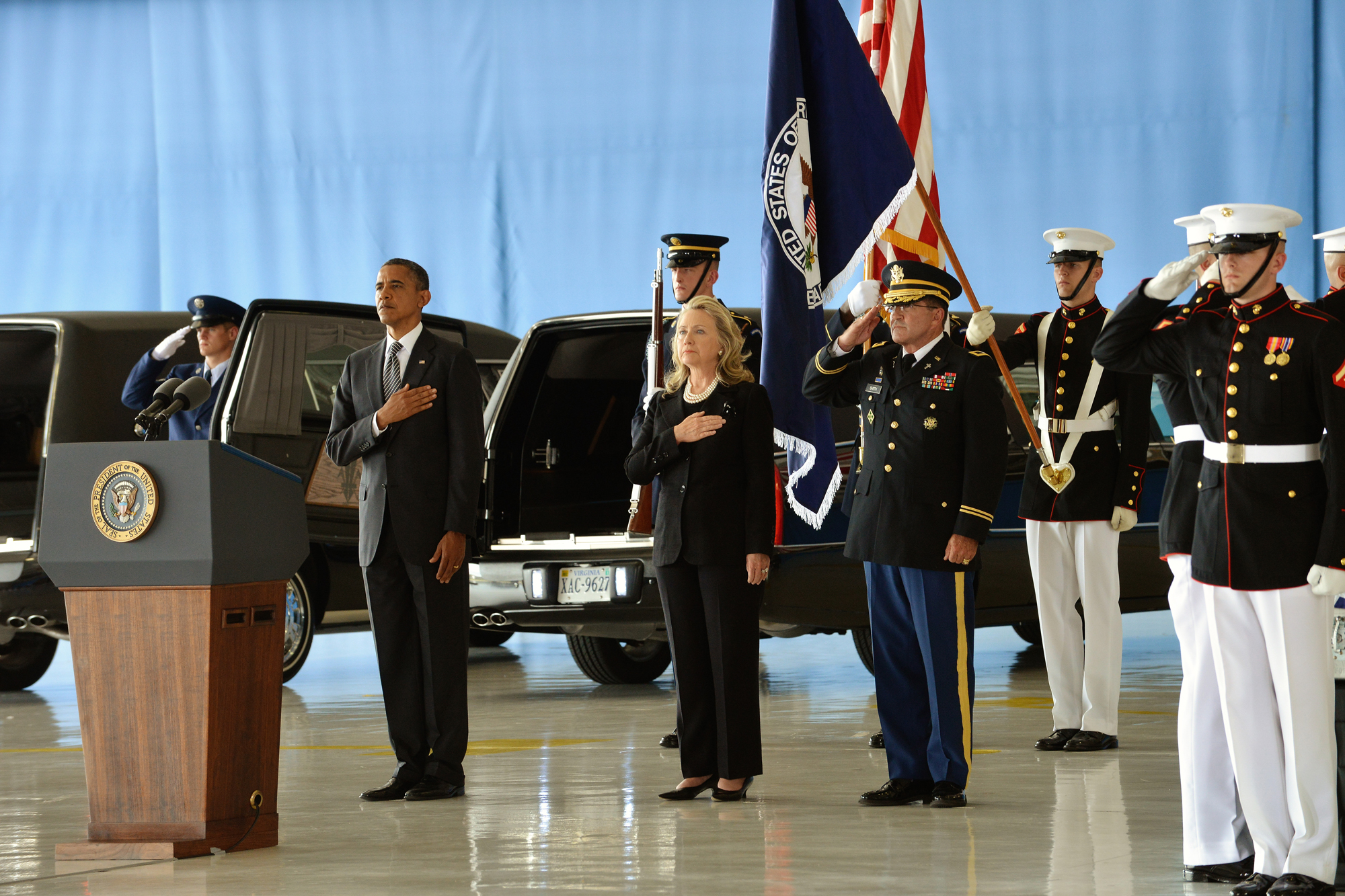 President Barack Obama and U.S. Secretary of State Hillary Clinton honor the Benghazi victims at the Transfer of Remains Ceremony held at Andrews Air Force Base, Joint Base Andrews, Maryland, September 14, 2012. An attack on the U.S. diplomatic mission in Benghazi, Libya claimed the lives of Ambassador J. Christopher Stevens, Information Management Officer Sean Smith, and security personnel Tyrone S. Woods and Glen A. Doherty on September 11, 2012. [State Department photo/ Public Domain]